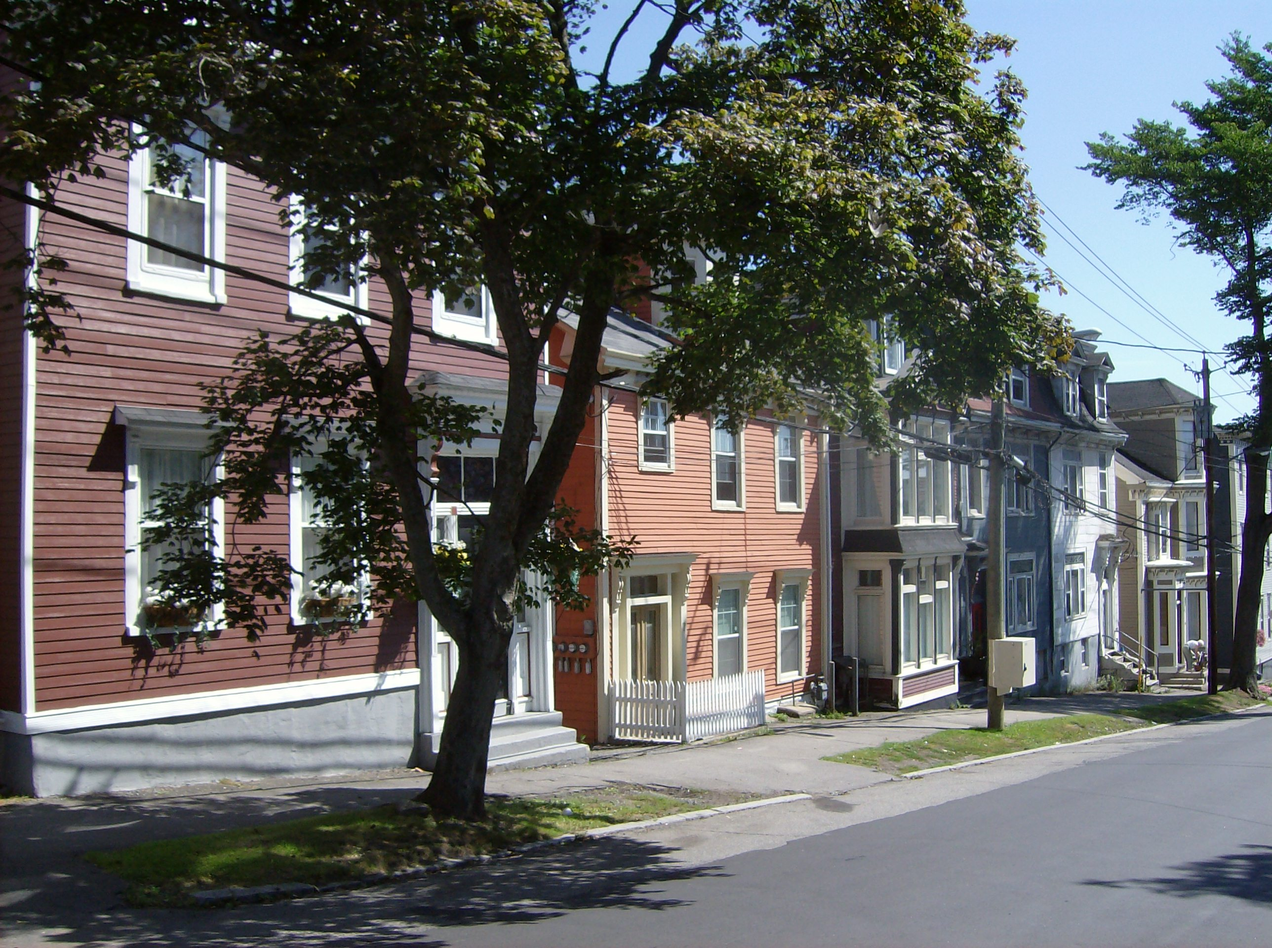 Peter Street Homes, Saint John, New Brunswick